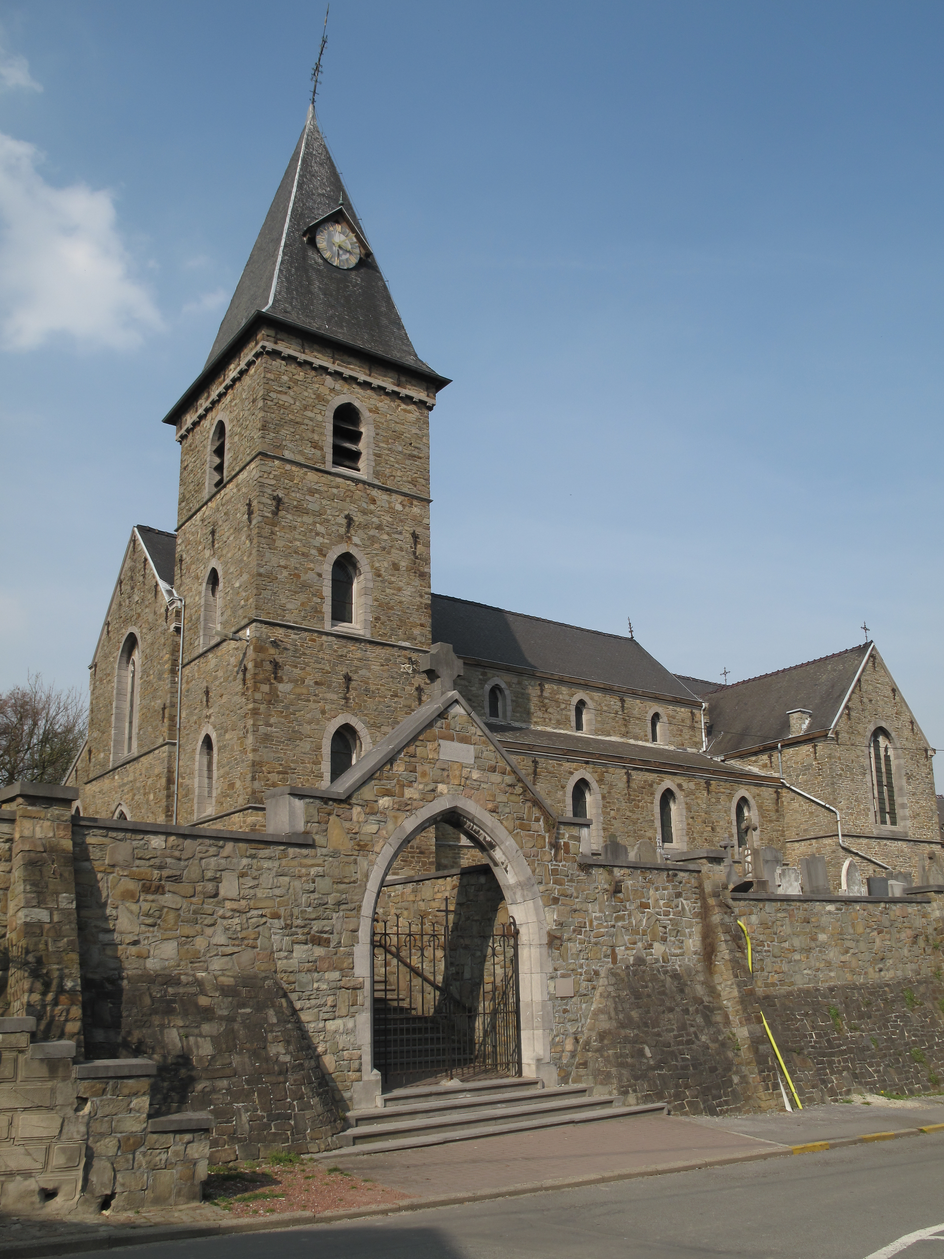 Heure le Romain, church